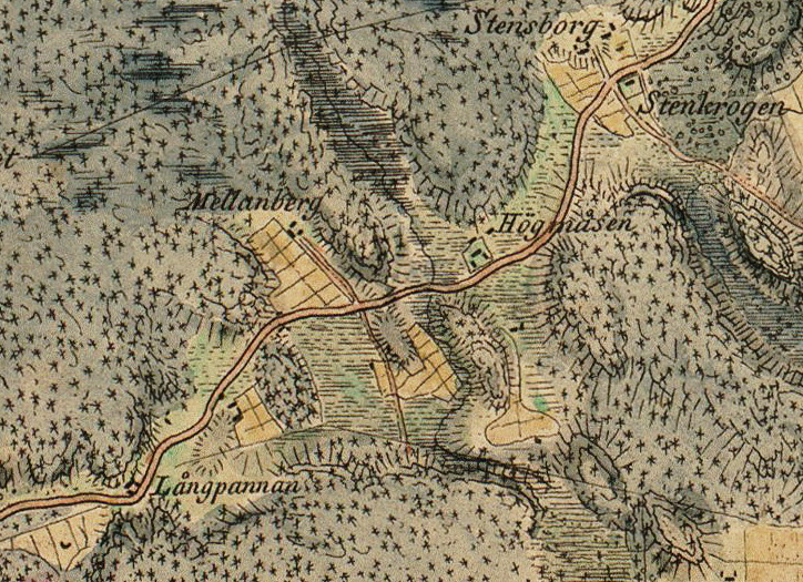 Del av karta över Stockholm med omgivningar 1817 visande torpen Långpannan, Mellanberg, Högmossen, Stensborg, Stenkrogen, mm